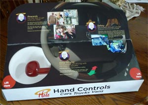 Package sample